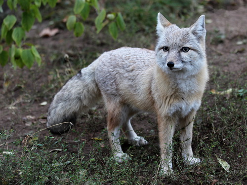 Corsac fox, Halle zoo